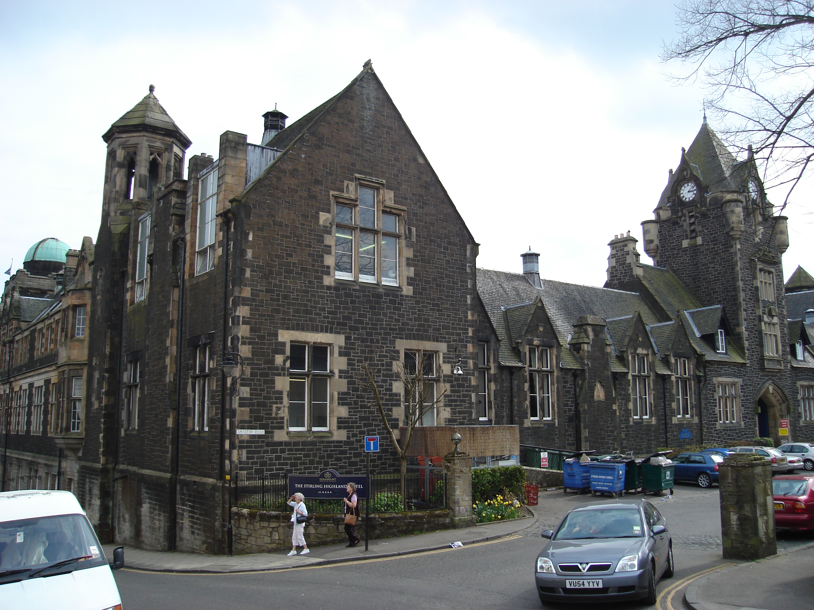 Stirling Highland Hotel in Stirling, Scotland, UK. The building was formerly the High School of Stirling